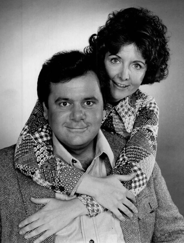 Photo of Paul Sorvino as George Platt and Mitzi Hoag as Liz Platt from the television program We'll Get By.